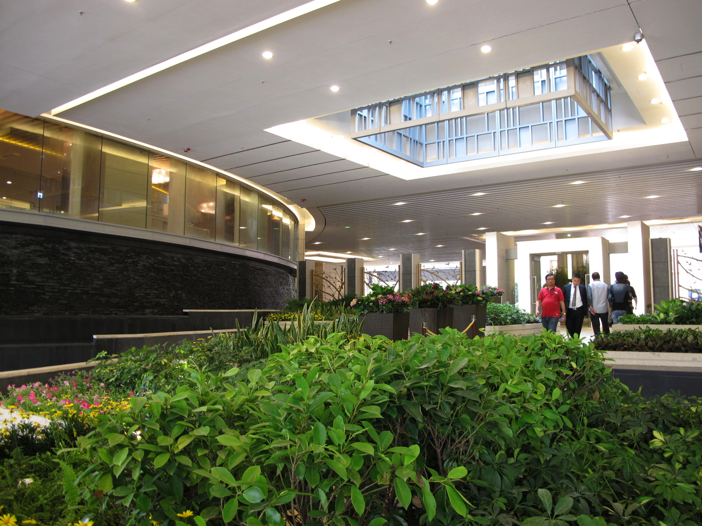 The Riverpark Ground Floor landscape area